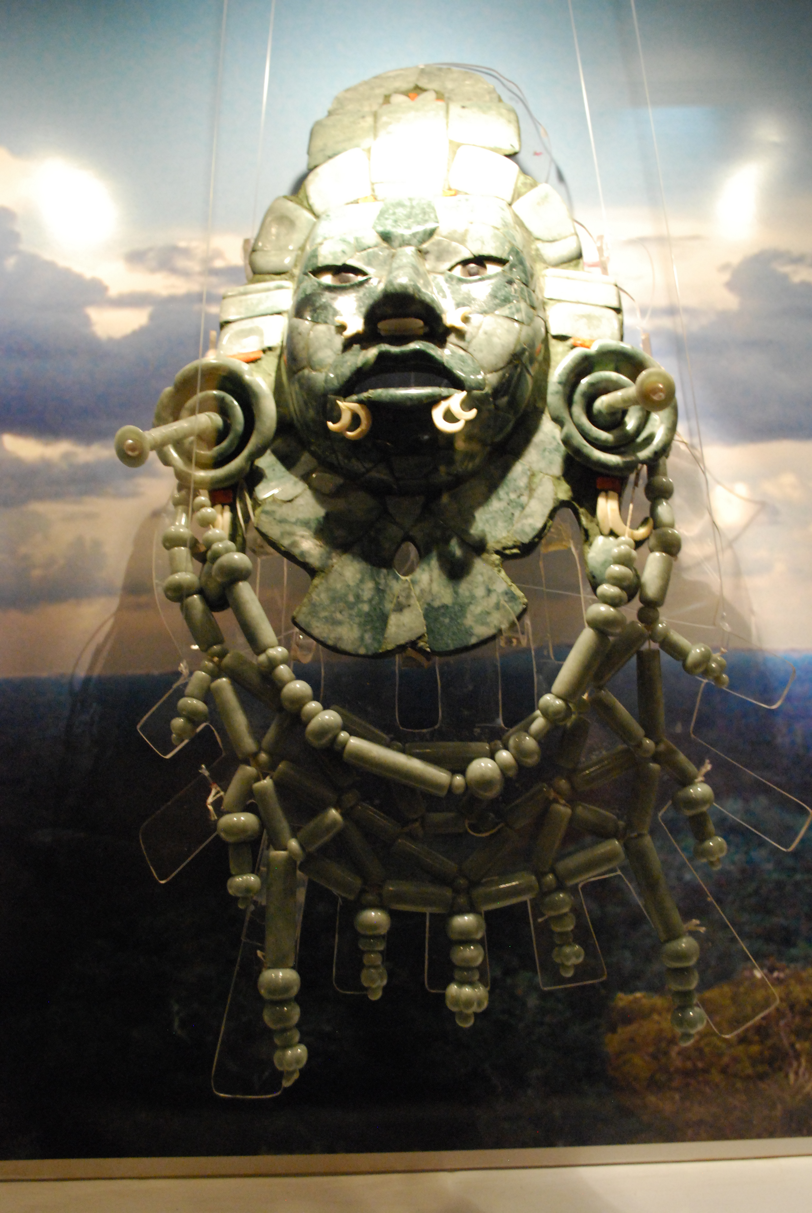 Replica of a Maya mask from Campeche at the Museo Mesoamericano del Jade in San Cristobal de las Casas, Chiapas, Mexico